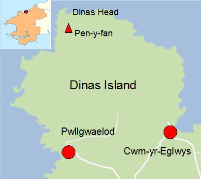 Dinas Island, showing main features